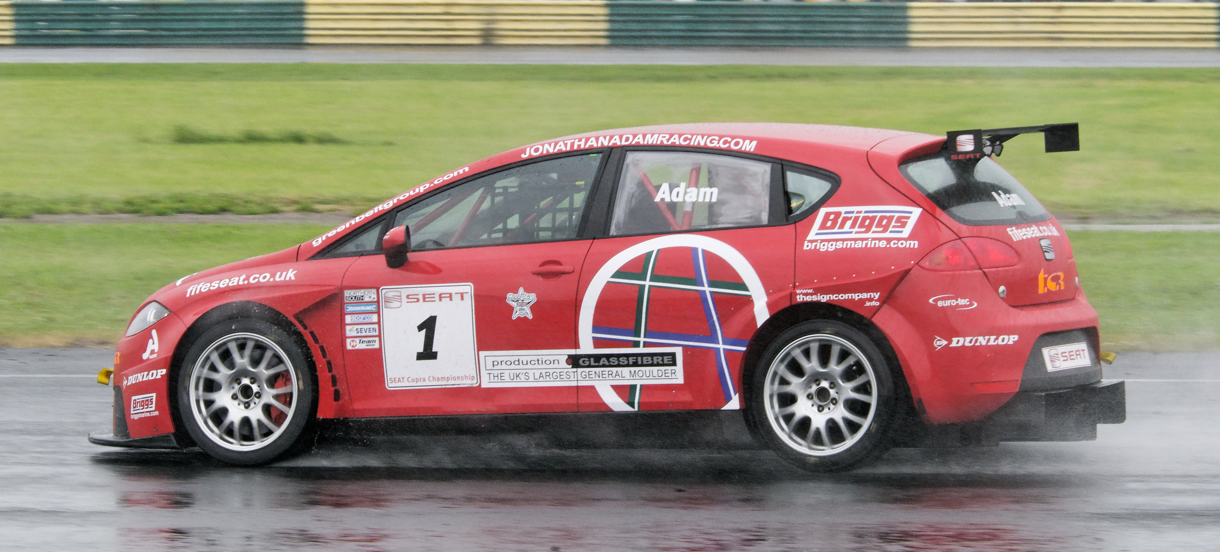 Jonathan Adam driving Seat Leon Cupra at Croft.